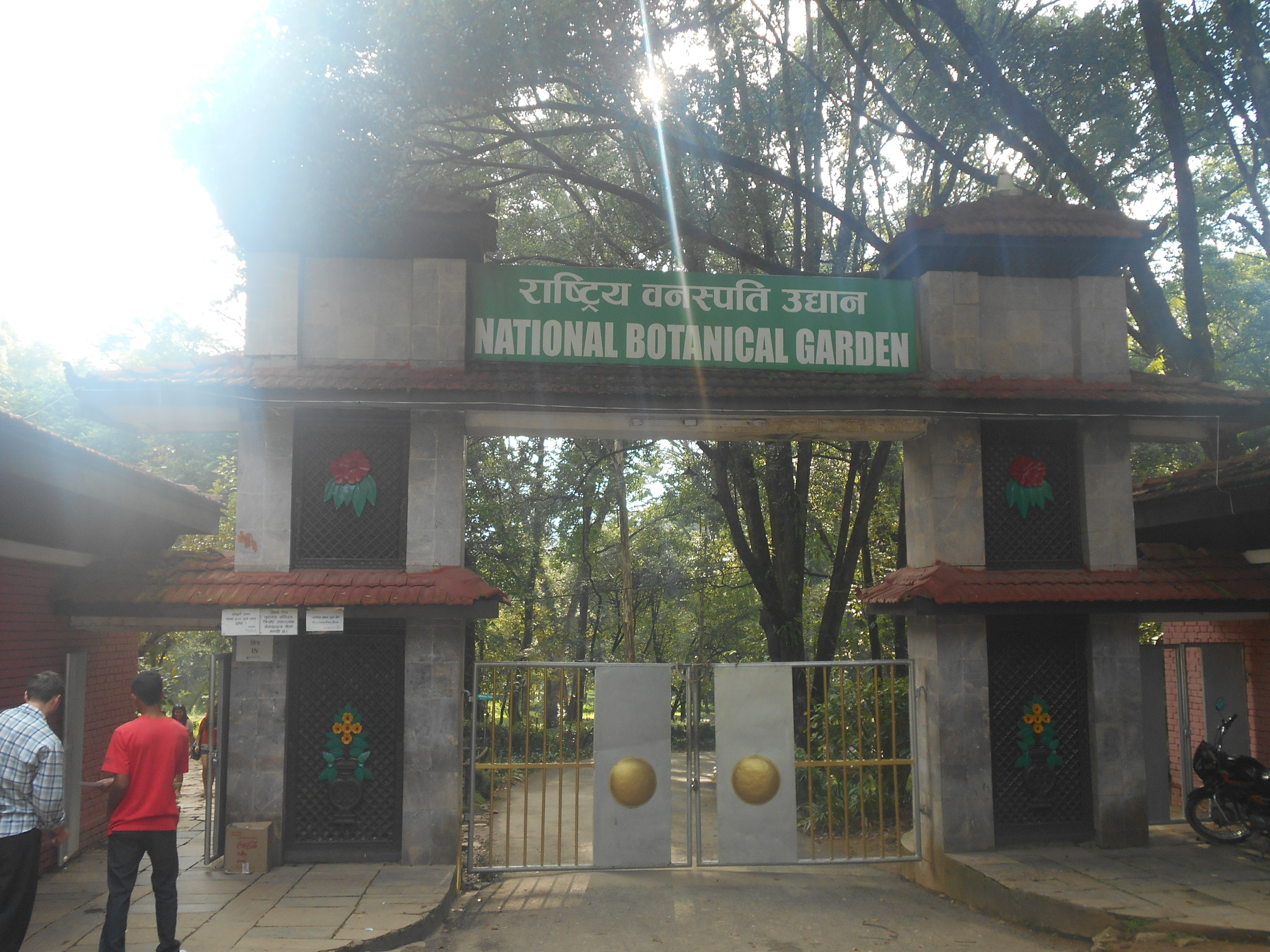 राष्ट्रिय वनस्पति उद्यान